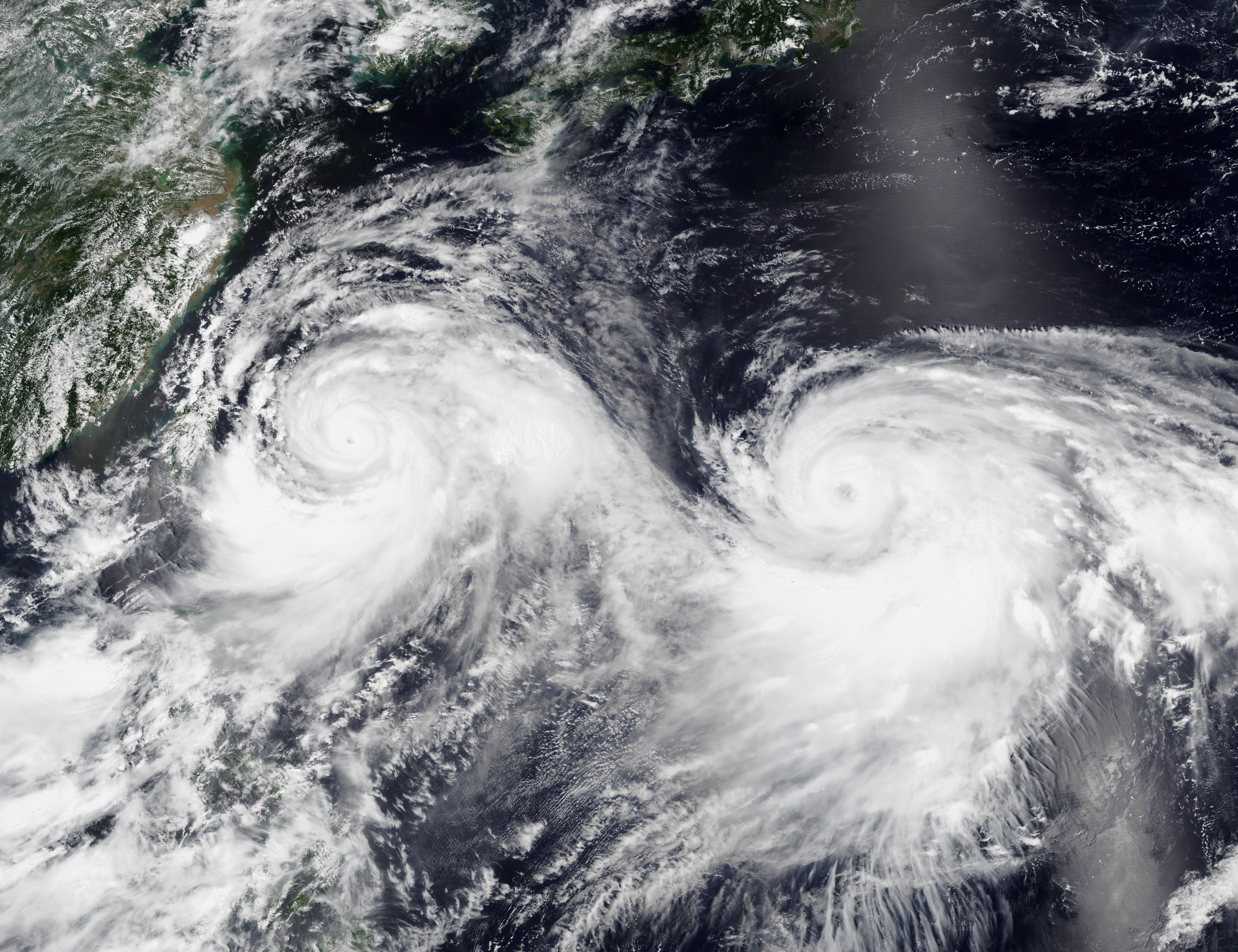 Typhoons Lekima and Krosa on August 8, 2019